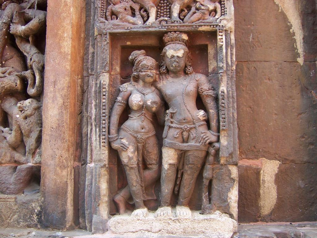 Sculpture of a couple in Vaital Deul, Bhubaneswar